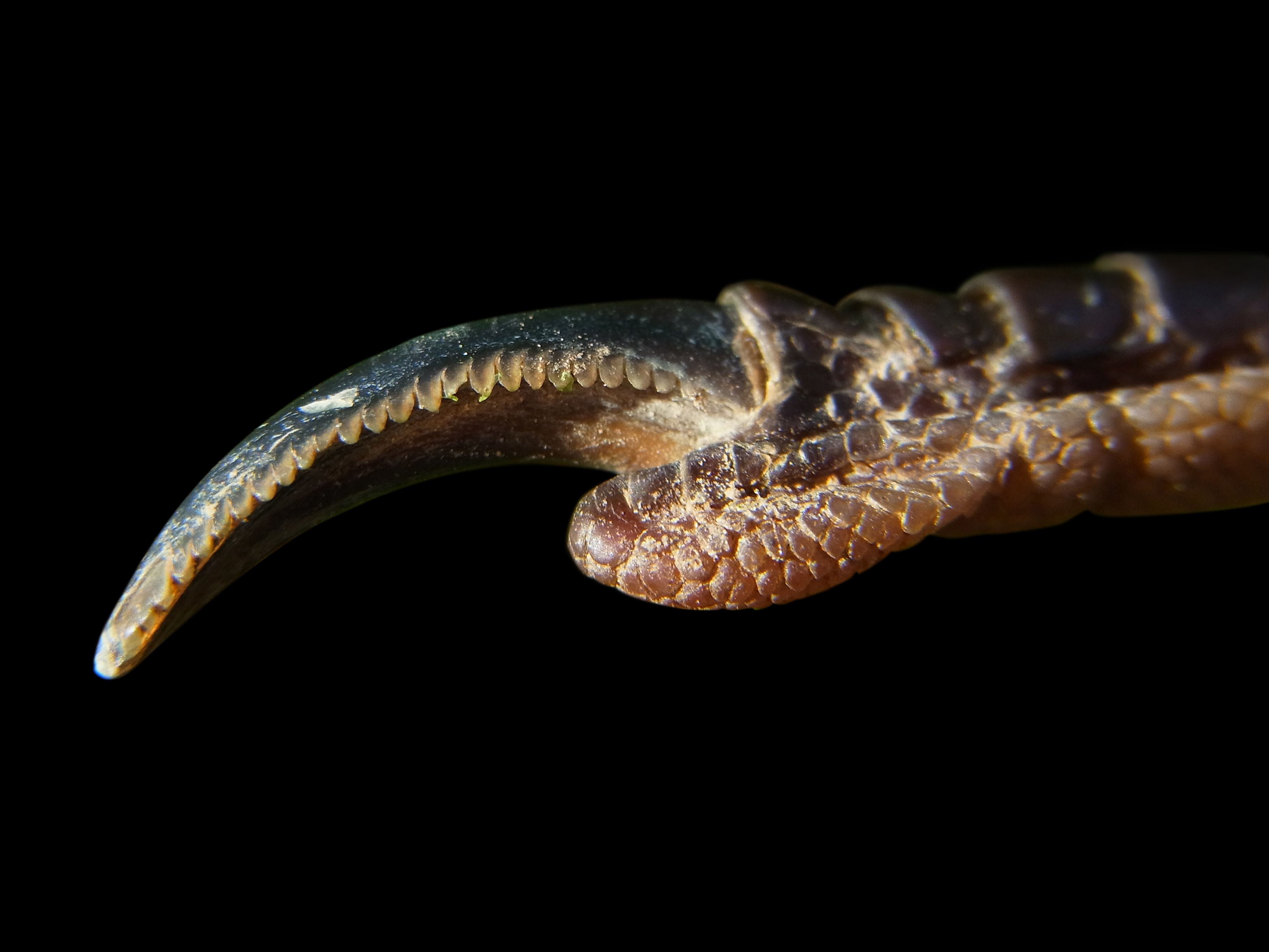 Serrated claw on the middle toe of a Grey Heron (Ardea cinerea)